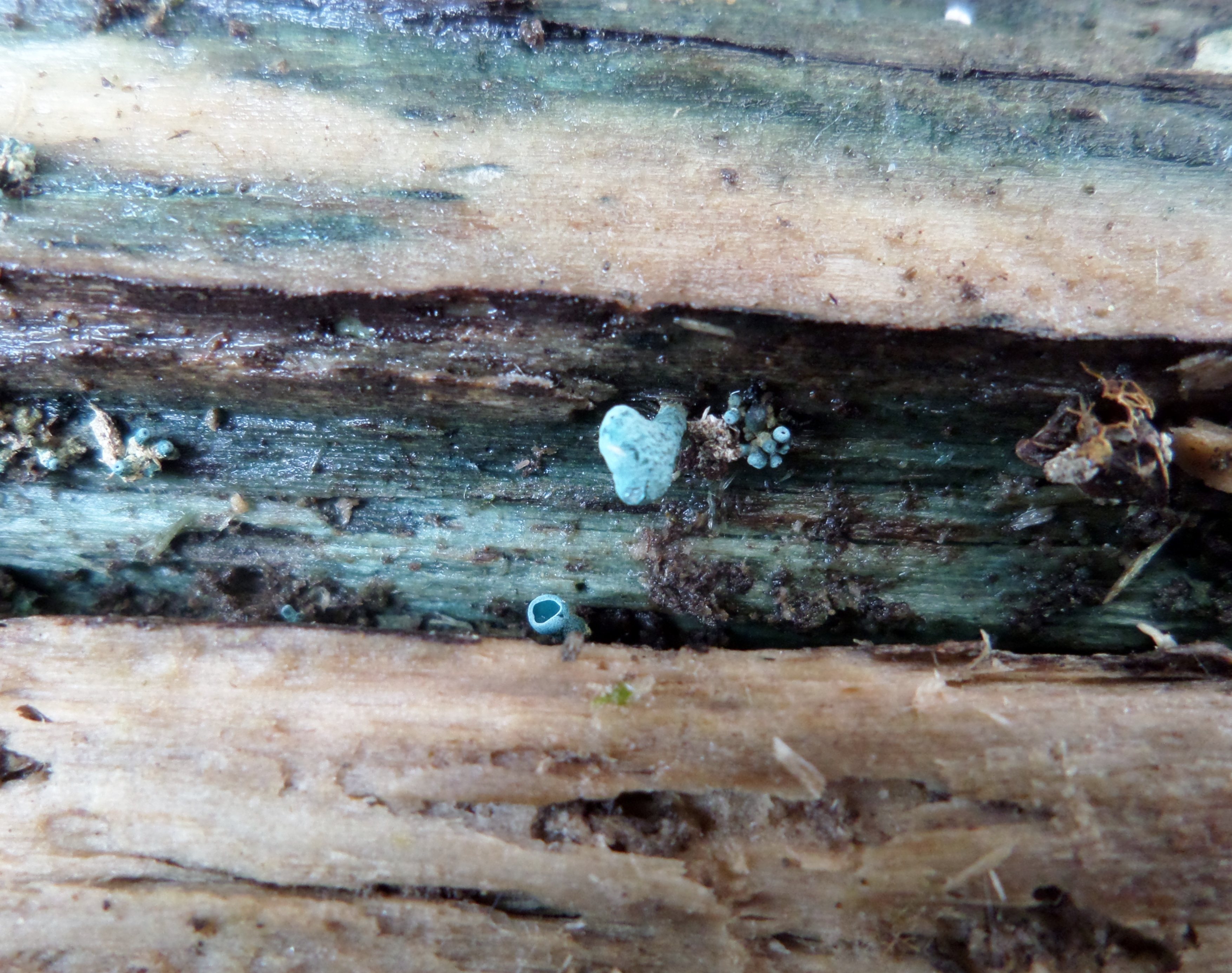 The ascomycete fungus Chlorociboria aeruginascens or Green Elfcup and fruiting bodies at Snacres Wood, Lylestone, Kilwinning, North Ayrshire, Scotland.